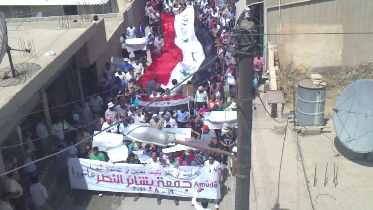 A demonstration against the government in the town of Amuda, northeastern Syria.